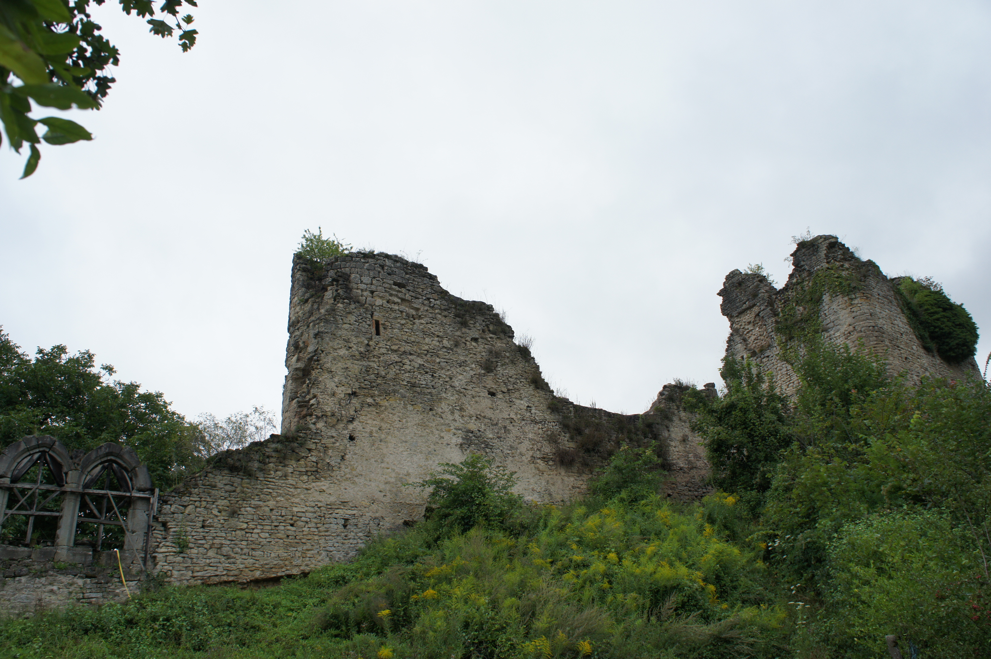 Ruins of the medieval castle of Blâmont in Lorraine, France, August 2014.